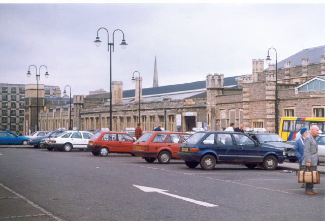 Bristol.. The old Great Western Railway station at the Temple Meads.